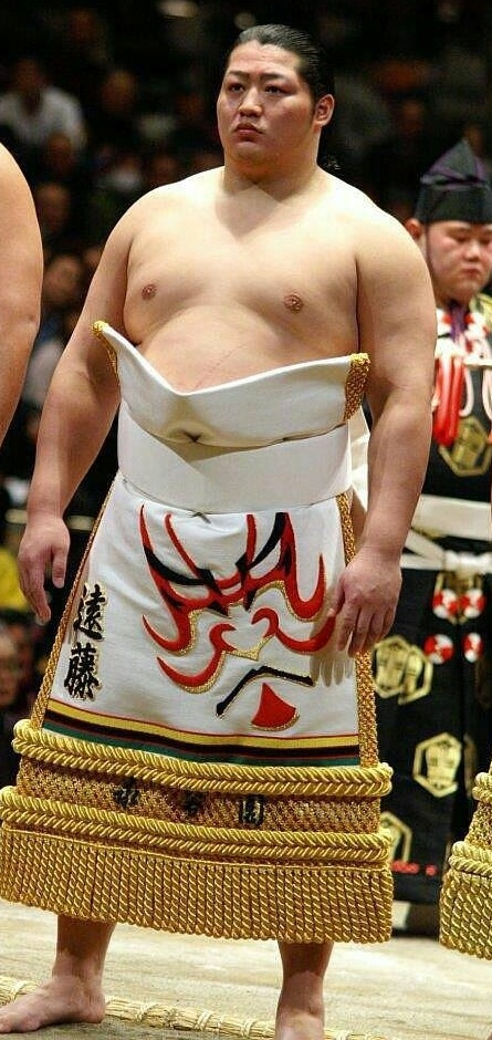 top division sumo wrestler Endo at the March 2014 tournament